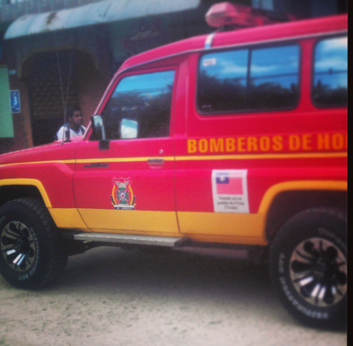 Fire Department ambulance